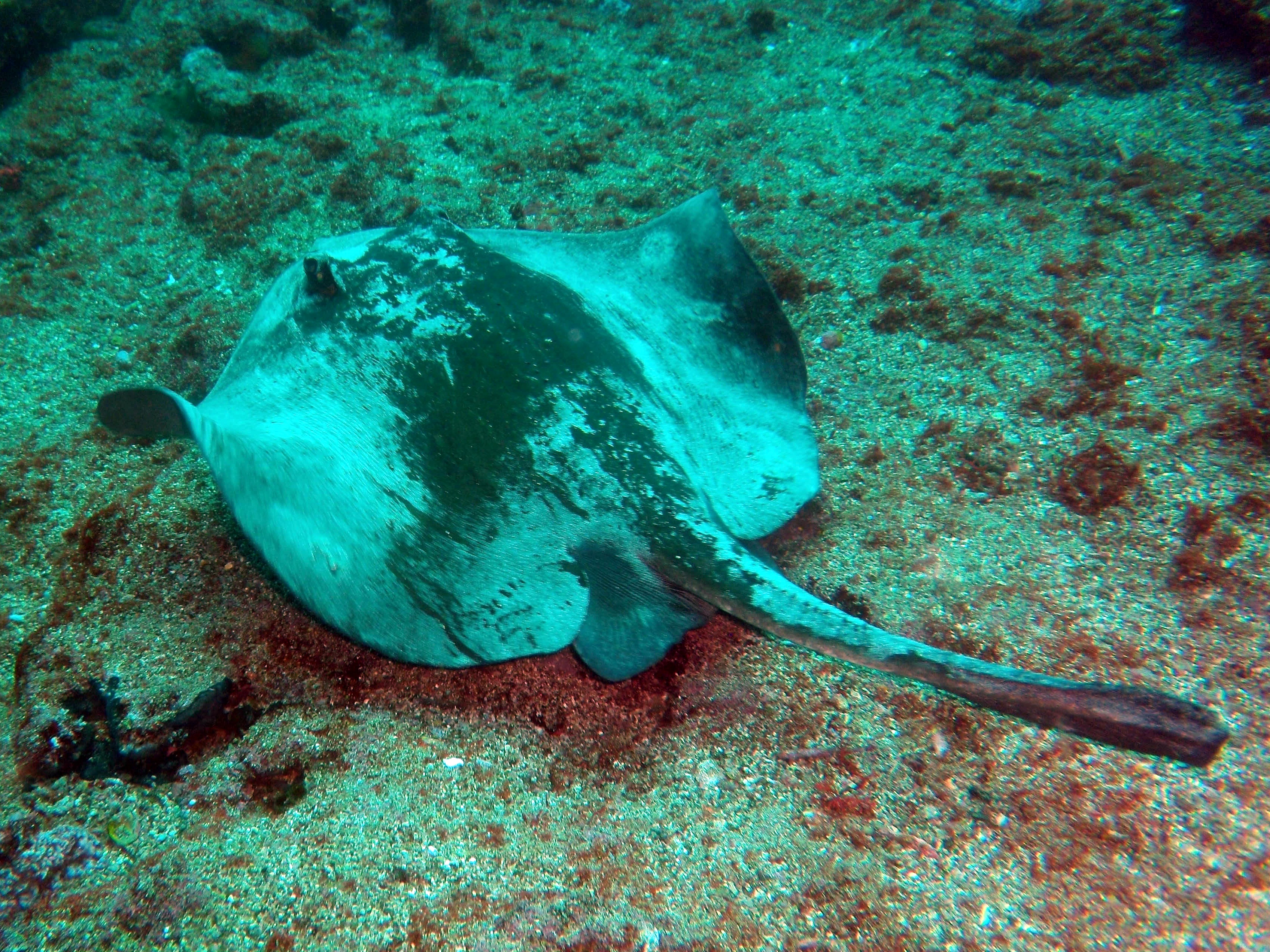 Diamond stingray (Dasyatis dipterura) in the Galapagos.